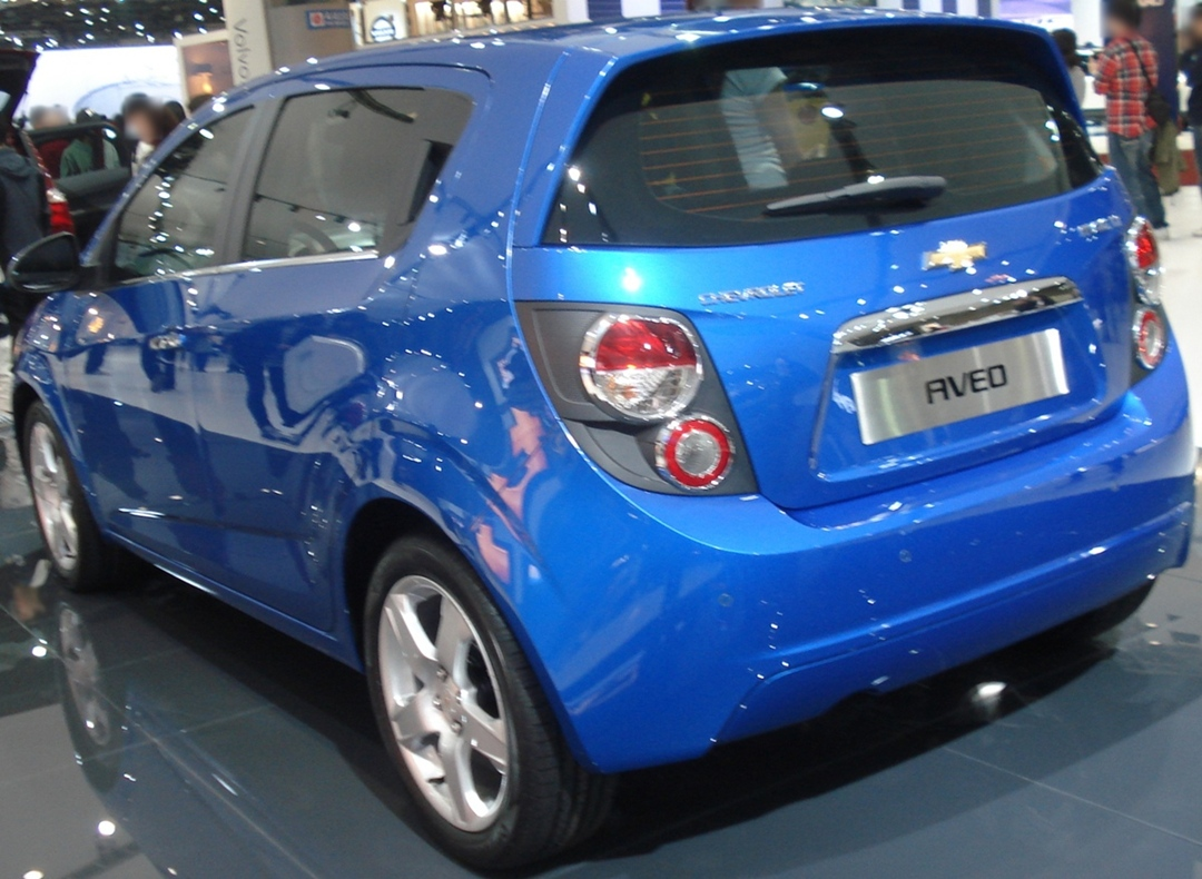 Chevrolet Aveo